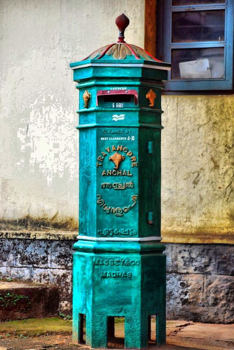 an HDR from just 2 images. on dark another one brightened from it.